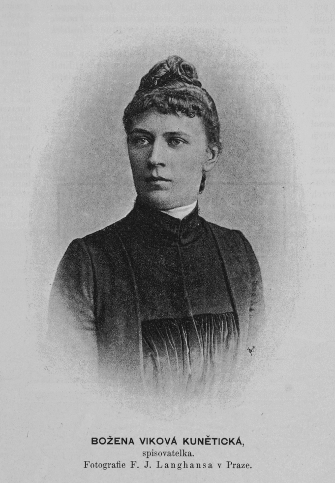 Photo of Božena Viková-Kunětická (1862-1934), Czech writer and politician.